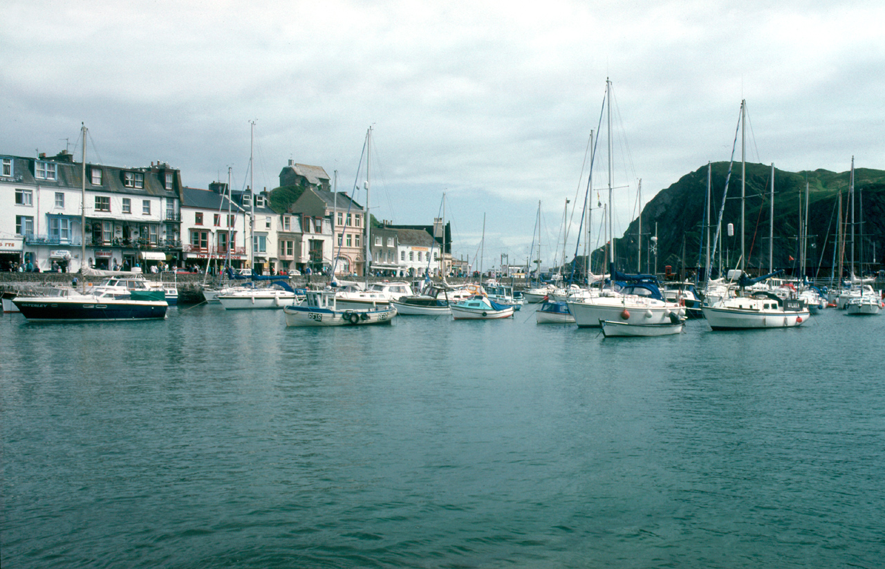 The harbour of the village of Ilfracombe on the north coast of the english county of Devon